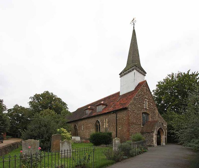 St Martin of Tours, Chipping Ongar, Essex